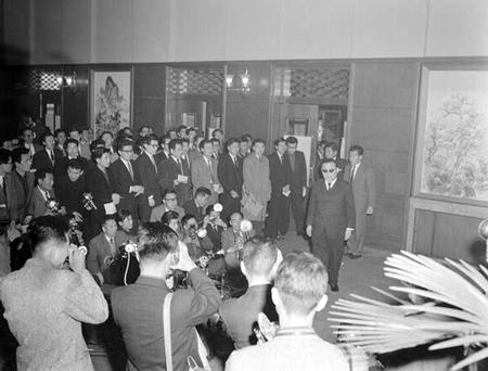 Yoon Po-son, the 2nd president of Republic of Korea, comes in the press center to announce his resignation from the seat